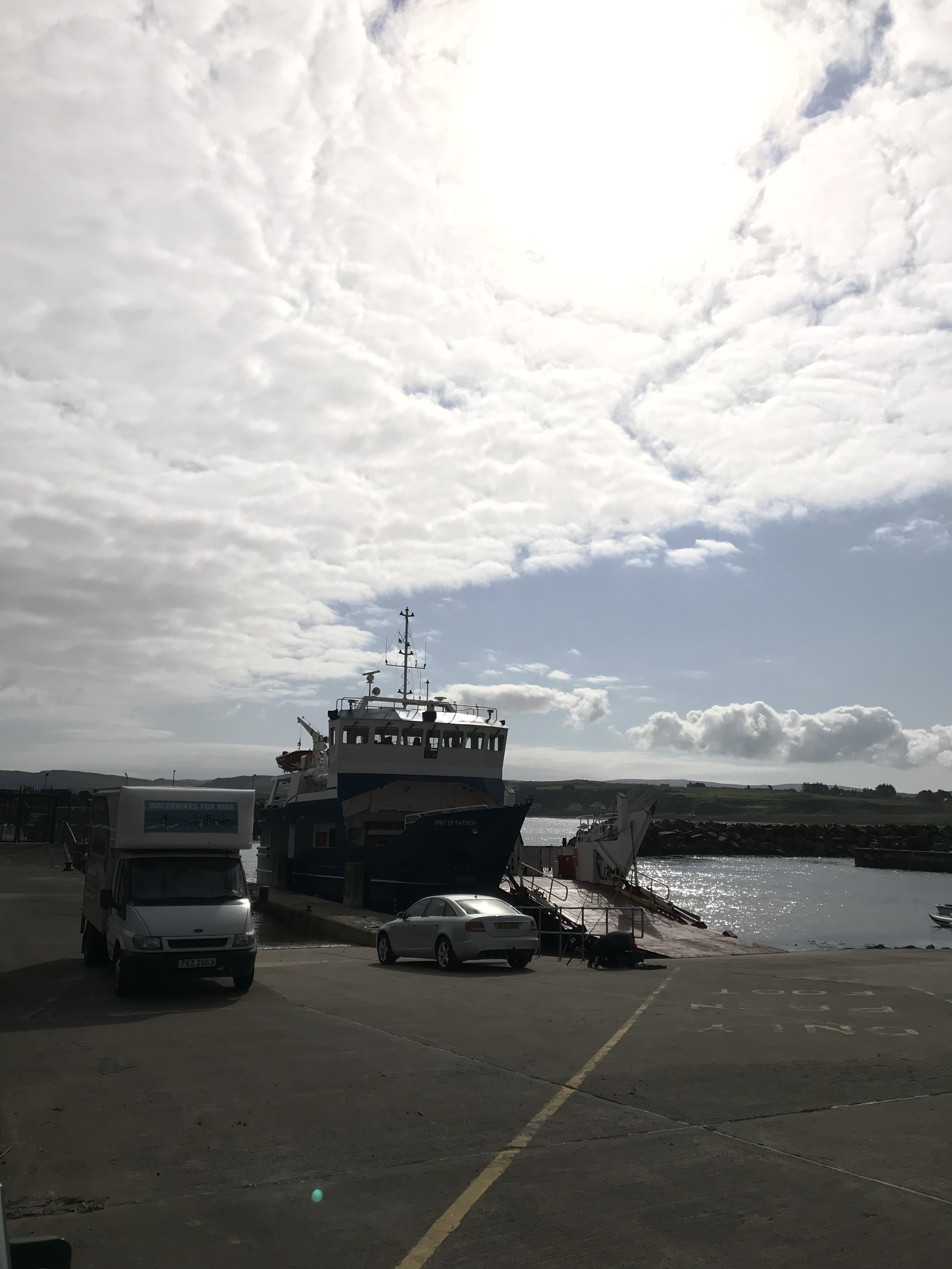 Picture of Spirit of Rathlin Ferry 40 min crossing